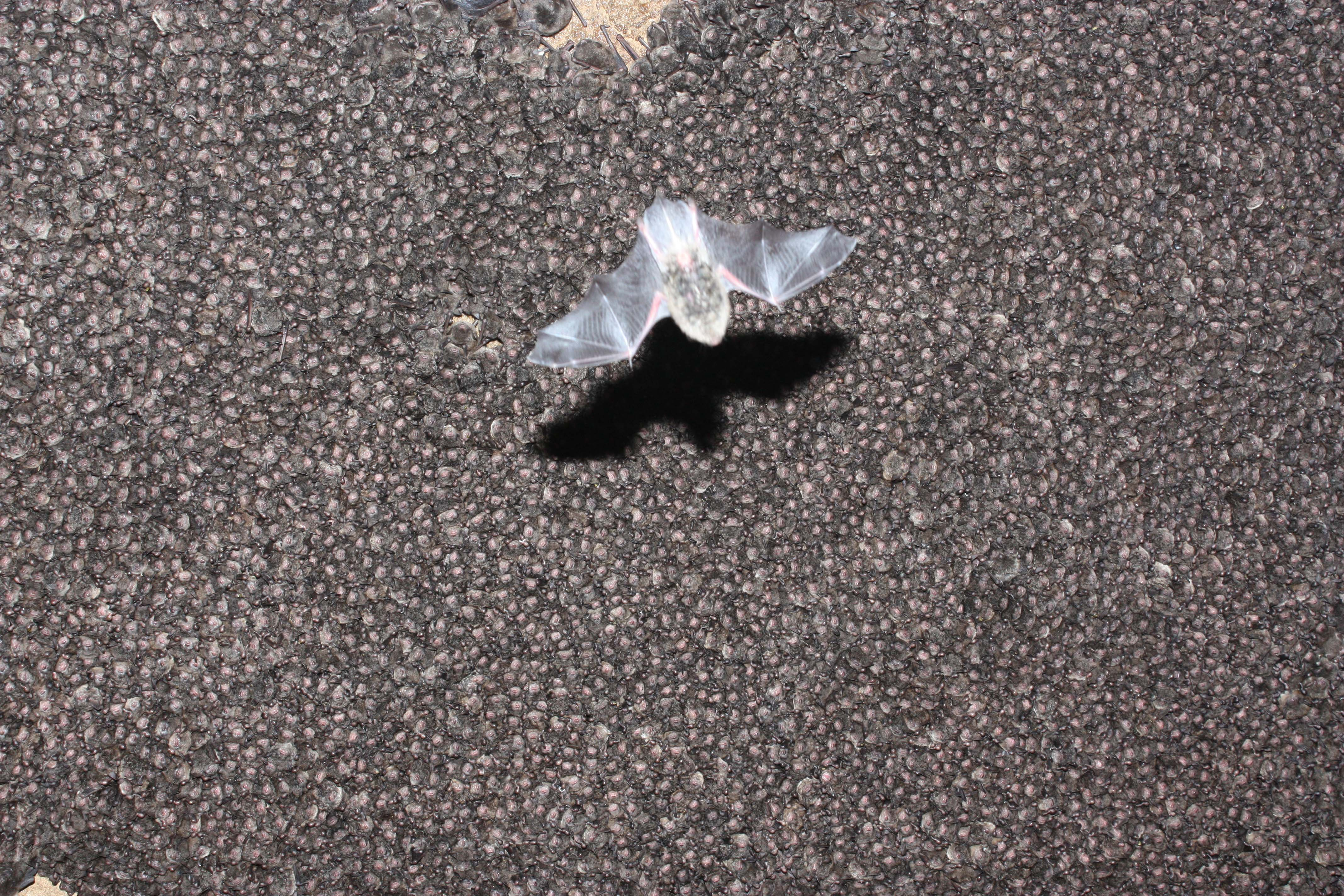 Credit: USFWS; Andrew King